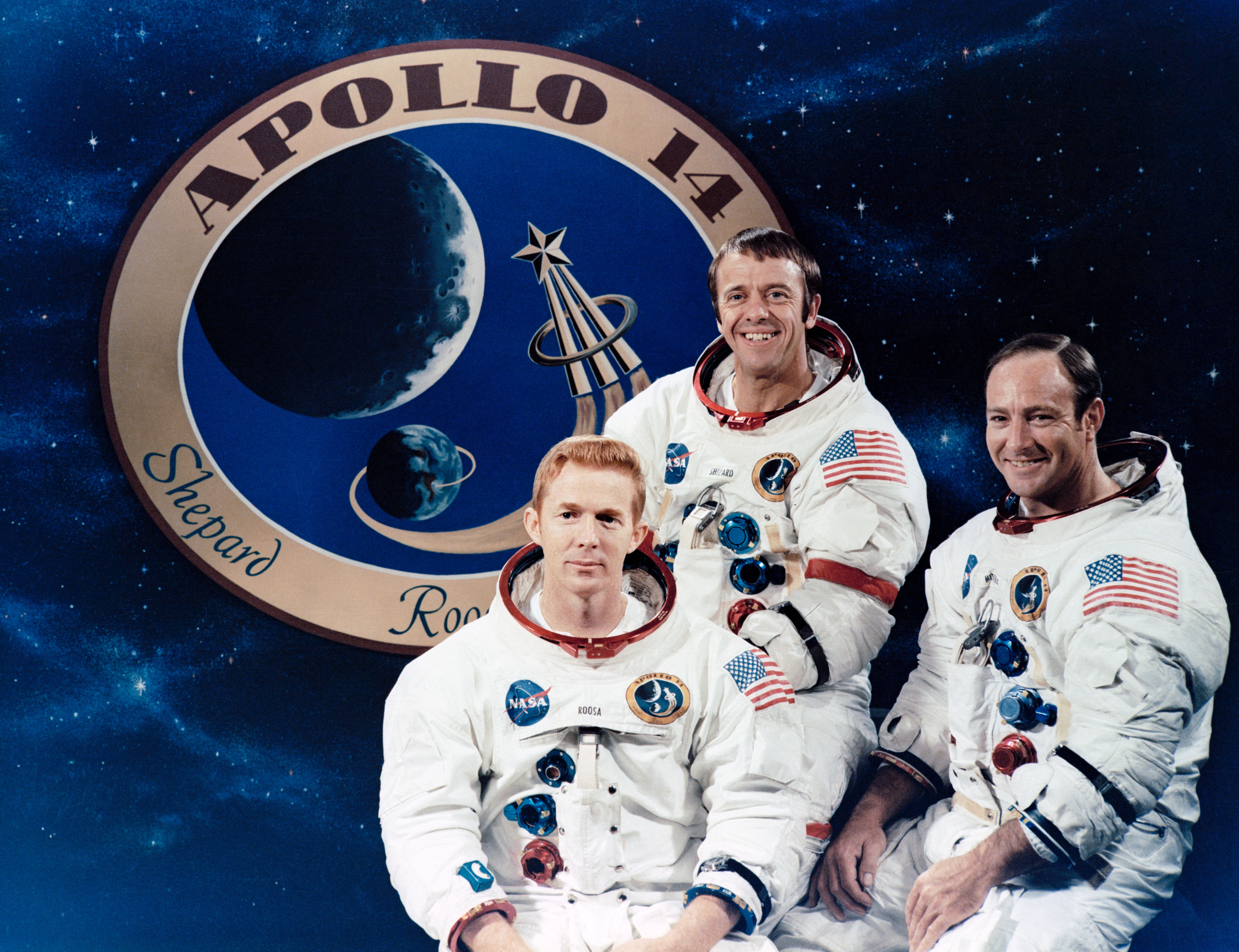 The prime crew of the Apollo 14 lunar landing mission. From left to right they are: Command Module pilot, Stuart A. Roosa, Commander, Alan B. Shepard Jr. and Lunar Module pilot Edgar D. Mitchell. The Apollo 14 mission emblem is in the background.